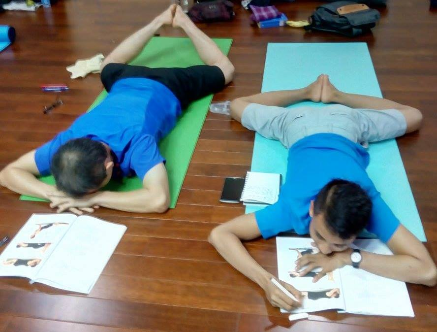 Two male yogis are doing prostrate frog pose variation taught in Sparsa Yoga by Fank Andreas, a yoga therapy guru from Malang, Indonesia.